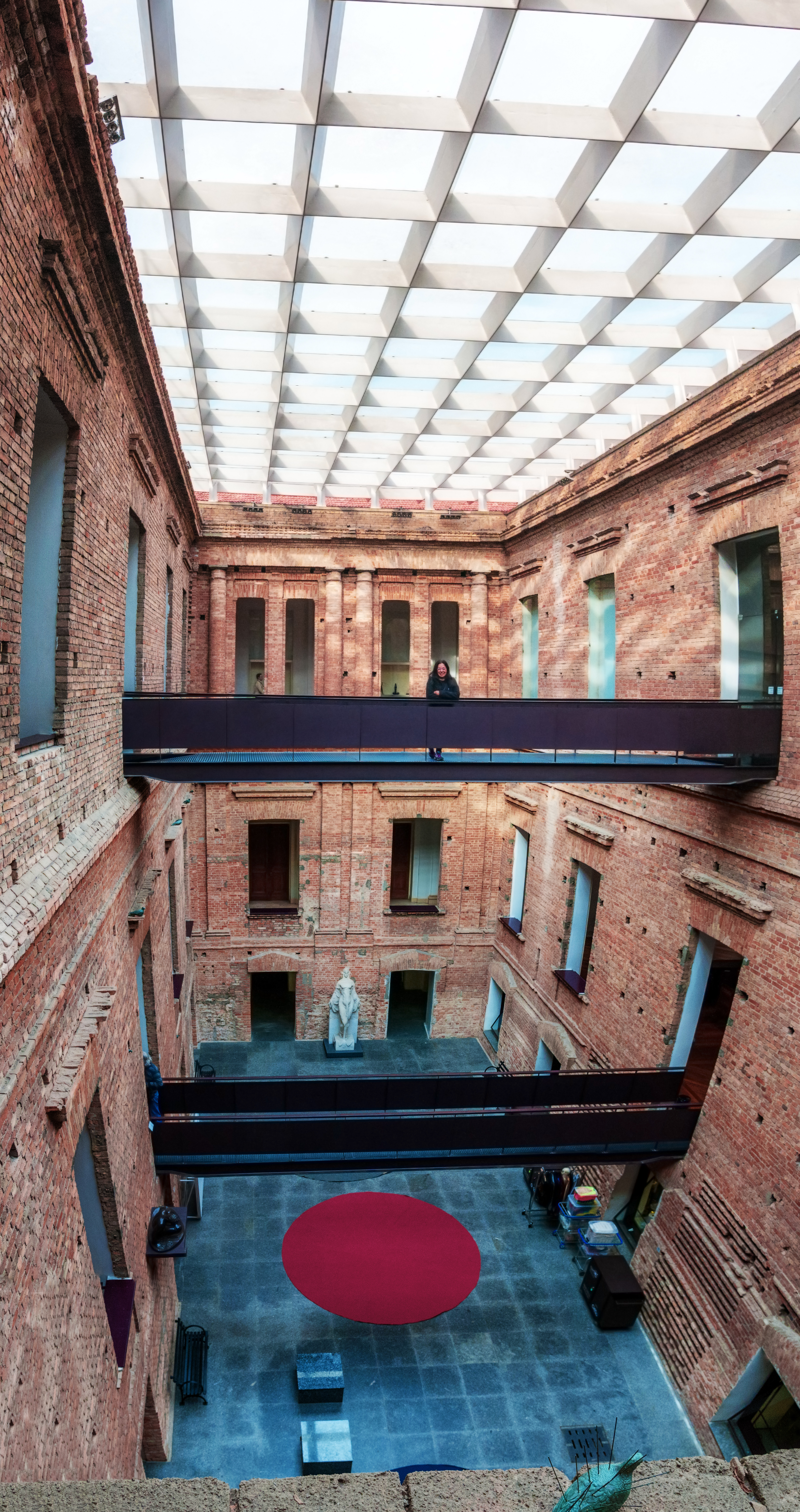 Pinacoteca of Sao Paulo (Interior)